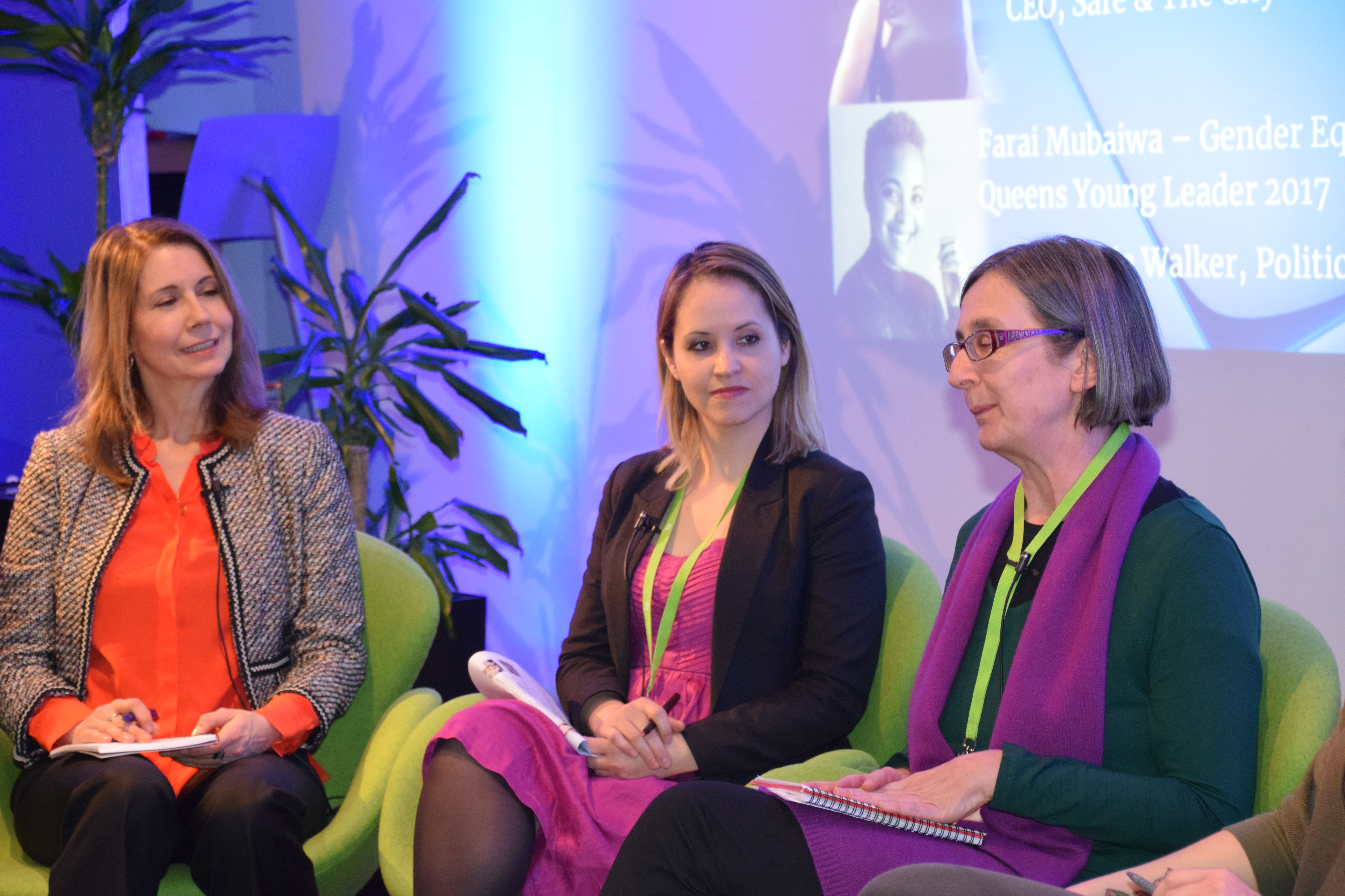 Inclusion Convention Institutional Sexual Harassment London with Kristiane Backer Sophie Walker Jillian Kowalchuk Farai Mabaiwa David Mahoney and Helen Pankhurst